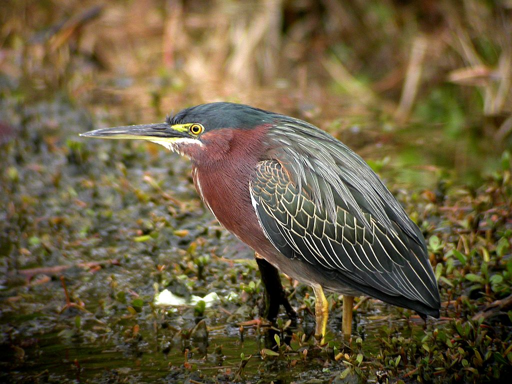 A wonderful subject for the photographer, as it will sit patiently and ignore most observers. Even dogs on a nearby path didn't faze this one. Tarpon Springs, Florida. Sure wish they would change the name of this bird. Green Heron, indeed!